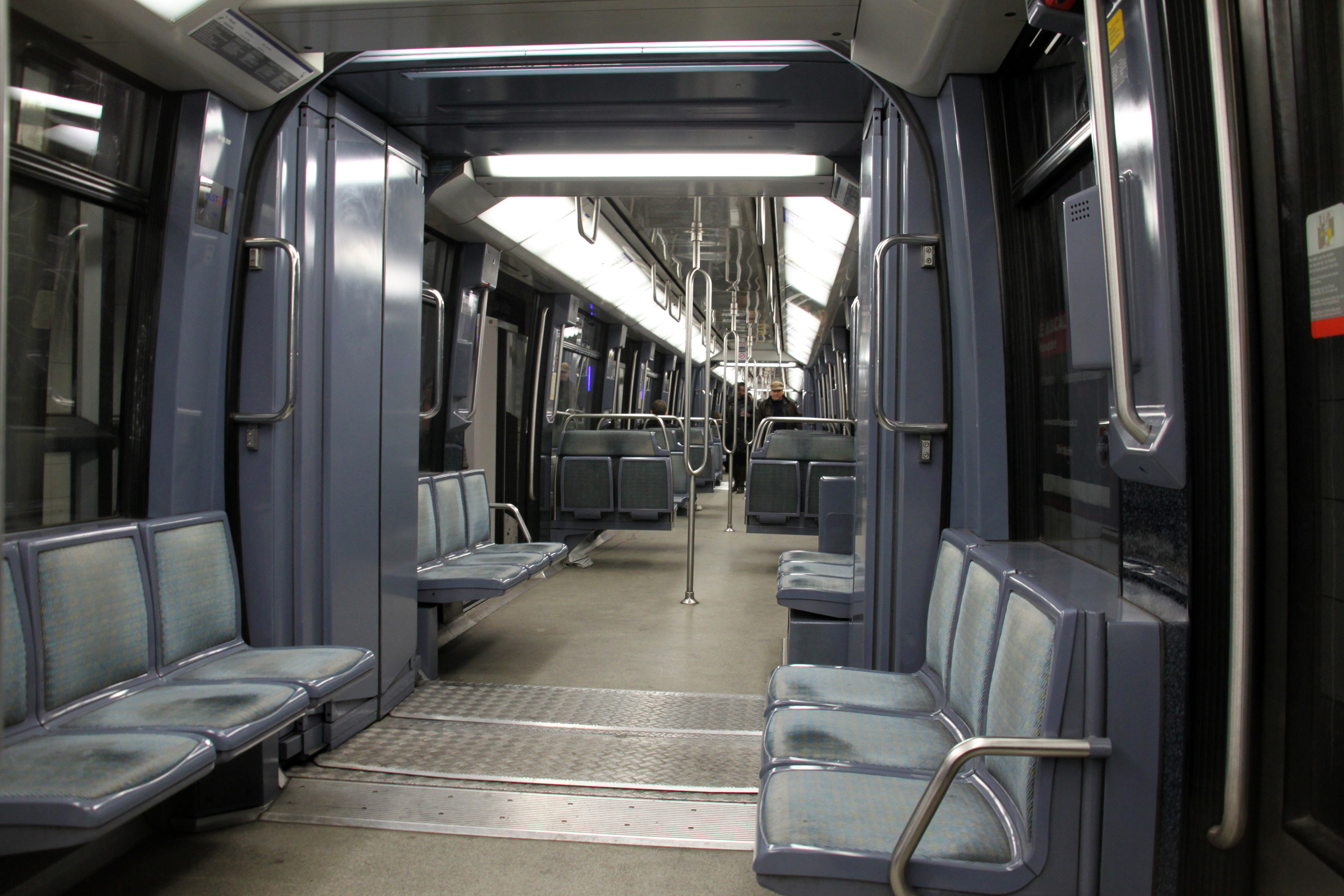 Interior of the Paris Metro MP 89 CC stock